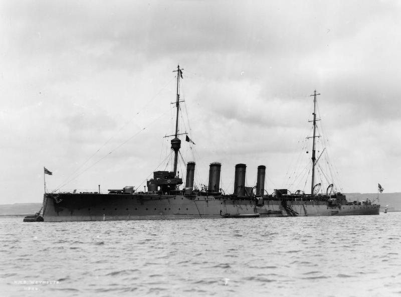 British light cruiser HMS WEYMOUTH.